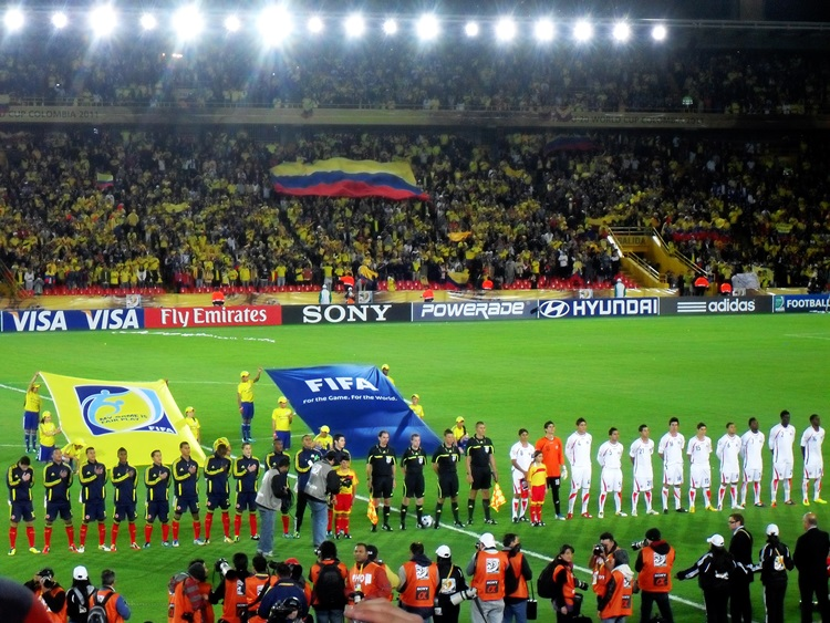 Colombia